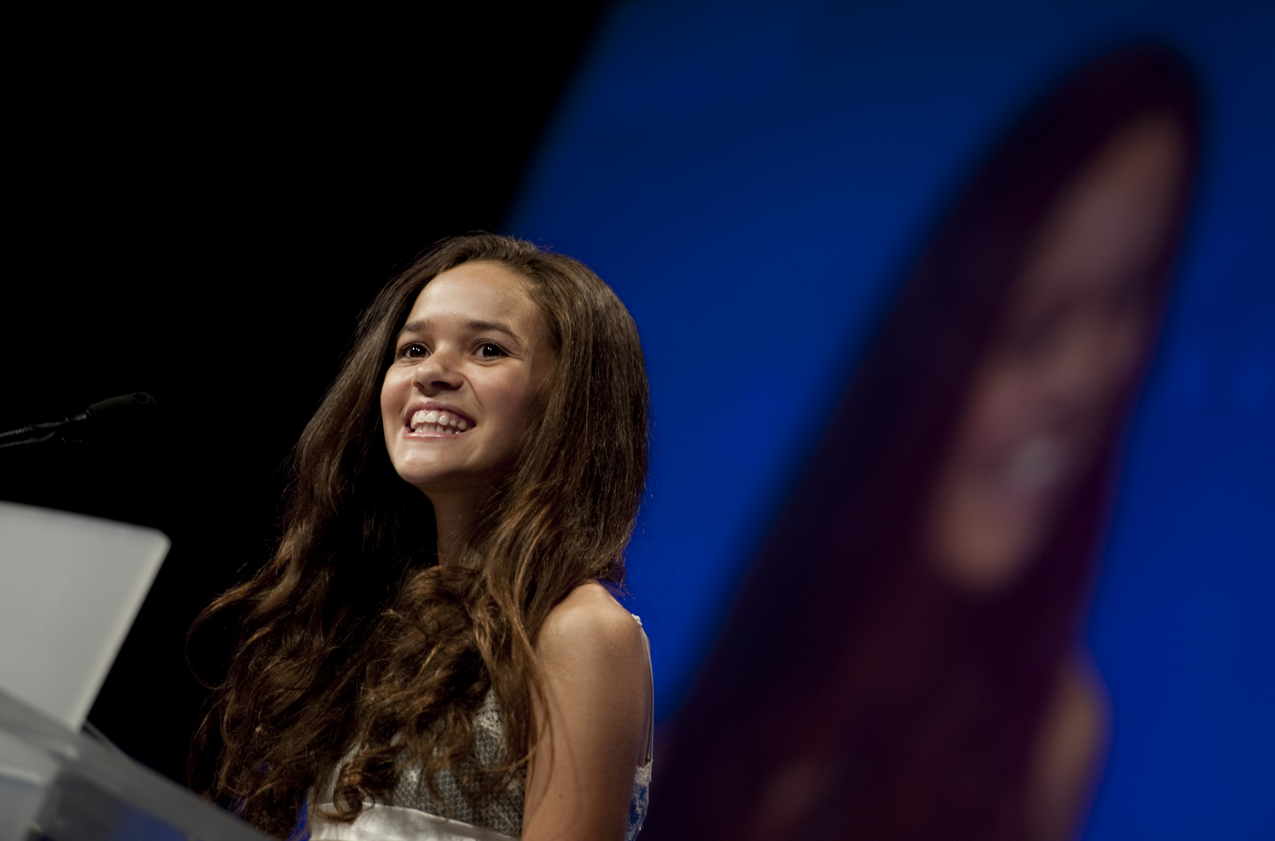 101006-N-0696M-045 Actress Madison Pettis introduces the United Through Reading Program at the USO Gala at the Marriott Wardman Park Hotel in Washington, D.C., Oct. 7, 2010. The program allows service members overseas to read a book to their children aloud while being recorded on DVD. Copies of the book, DVD, instructions are then shipped to the service members children. (DoD Photo by Mass Communication Specialist 1st Class Chad J. McNeeley/Released)